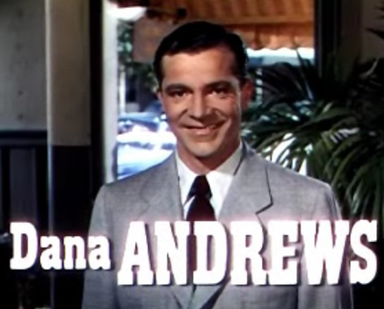 Cropped screenshot of Dana Andrews from the trailer for the film State Fair